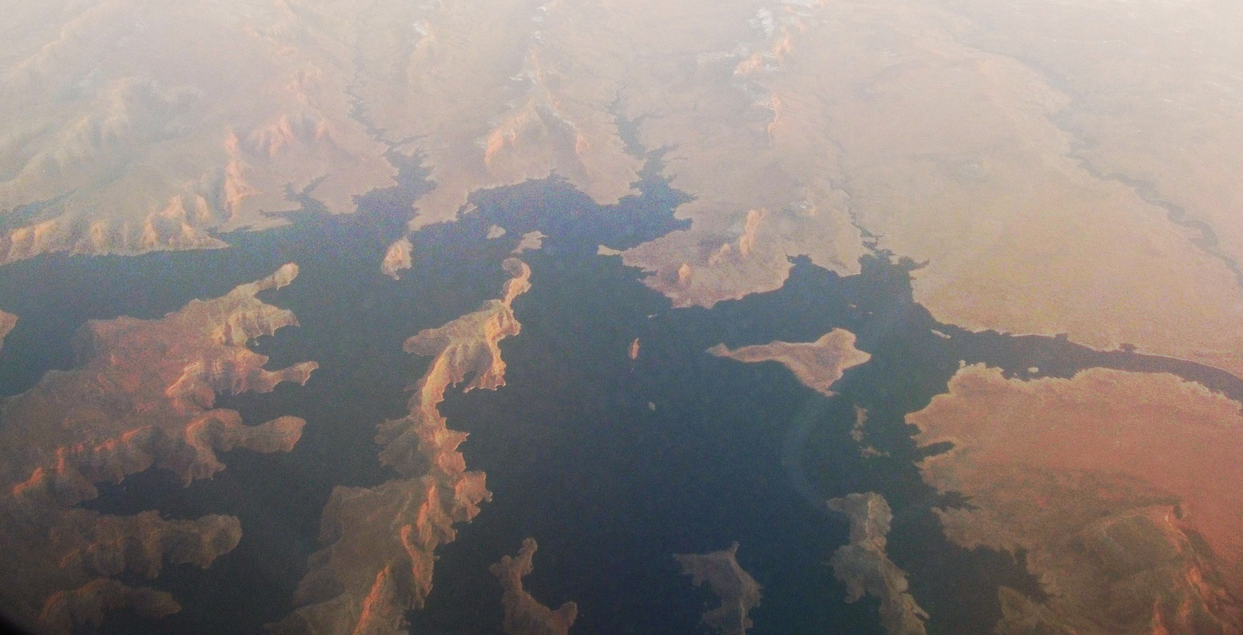 Lake Powell is a reservoir on the Colorado River, straddling the border between Utah and Arizona (most of it, along with Rainbow Bridge, is in Utah). It is a major vacation spot that around 2 million people visit every year. It is the second largest man-made reservoir in maximum water capacity in the United States behind Lake Mead, storing 24,322,000 acre feet (3.0001×1010 m3) of water when full. Current water levels, however, put Lake Powell ahead of Lake Mead in water volume and surface area. Lake Powell was created by the flooding of Glen Canyon by the controversial Glen Canyon Dam, which also led to the creation of Glen Canyon National Recreation Area, a popular summer destination. The reservoir is named for explorer John Wesley Powell, a one-armed American Civil War veteran who explored the river via three wooden boats in 1869. In 1972, Glen Canyon National Recreation Area was established. It is public land managed by the National Park Service, and available to the public for recreational purposes. It lies in parts of Garfield, Kane, and San Juan counties in southern Utah, and Coconino County in northern Arizona. The northern limits of the lake extend at least as far as the Hite Crossing Bridge. A map centered at the confluence of the Escalante River Lake Powell is a storage facility for the Upper Basin states of the Colorado River Compact (Colorado, Utah, Wyoming, and New Mexico). The Compact specifies that the Upper Basin states are to provide a minimum annual flow of 7,500,000 acre feet (9.3 km3) to the Lower Basin states (Arizona, Nevada, and California).